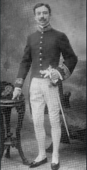 Miguel Ángel Albornoz , Ecuadorean polititian, about 1900